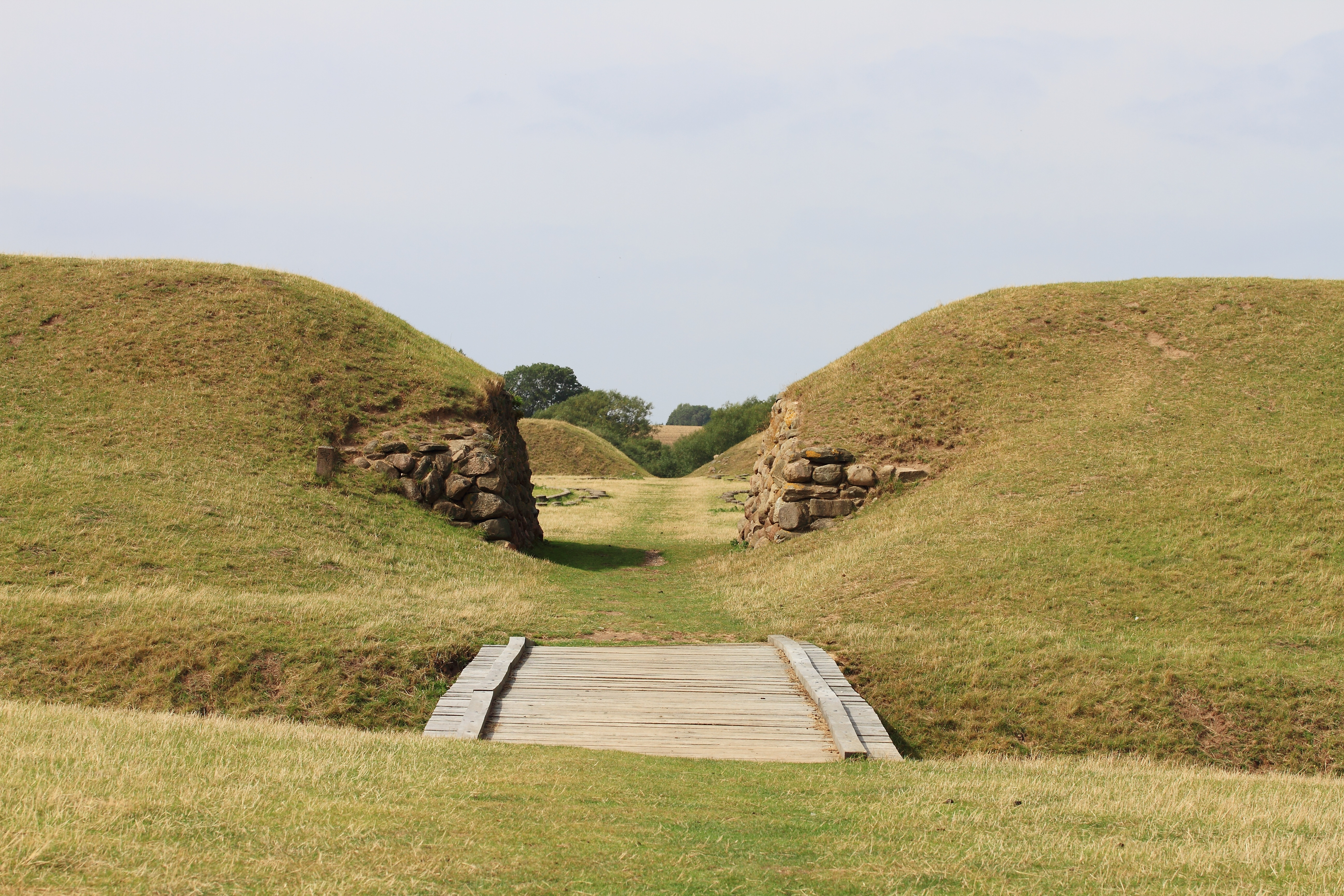 Within the viking ring castle of the open-air museum Trelleborg (Slagelse), Denmark.